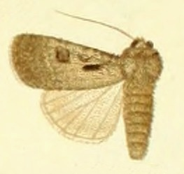 Image from Plate 7 of Die Gross-Schmetterlinge der Erde (The Macrolepidoptera of the World) Vol. 3